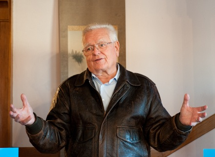 Former Governor of Colorado Roy Romer.